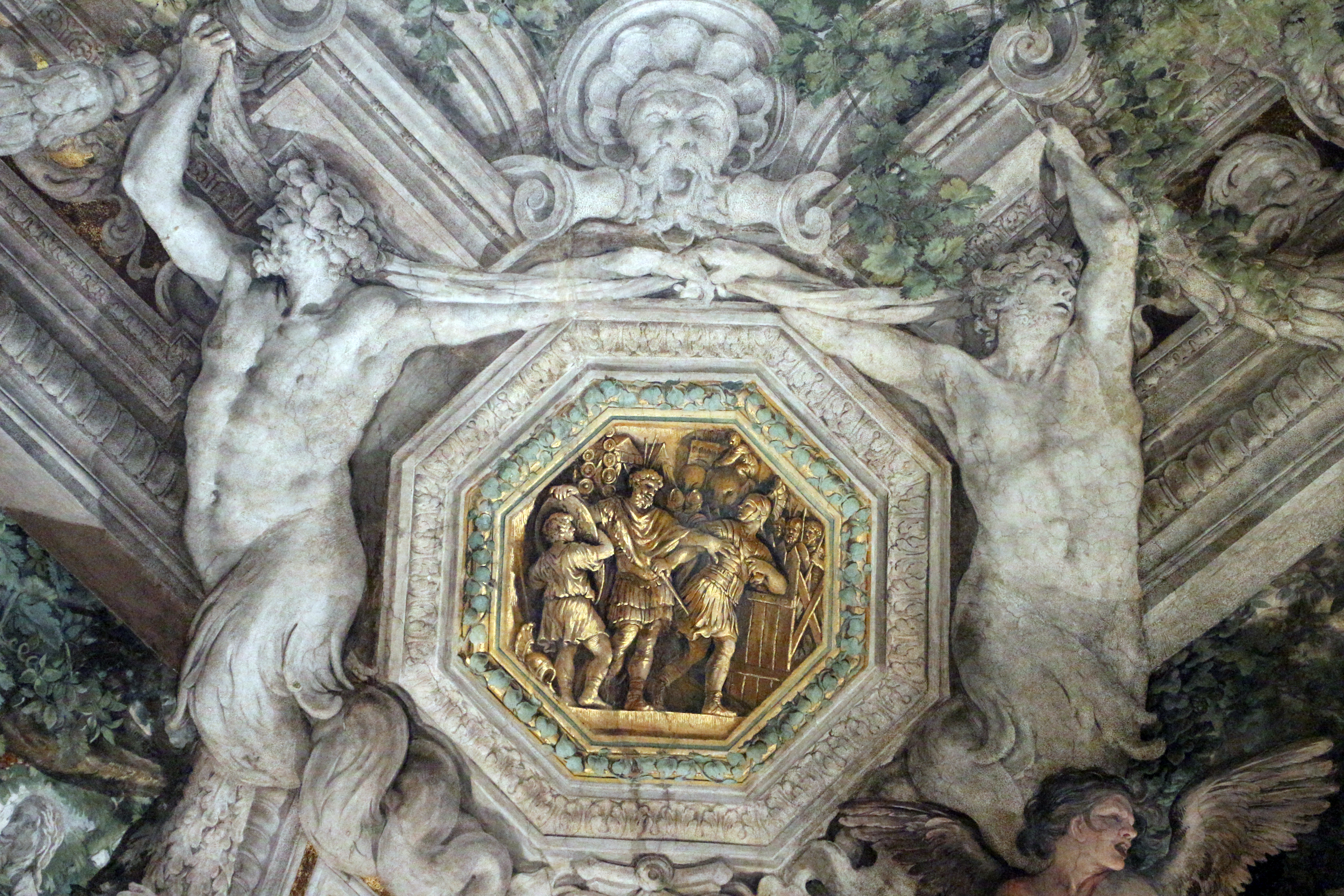 Triumph of the Divine Providence by Pietro da Cortona